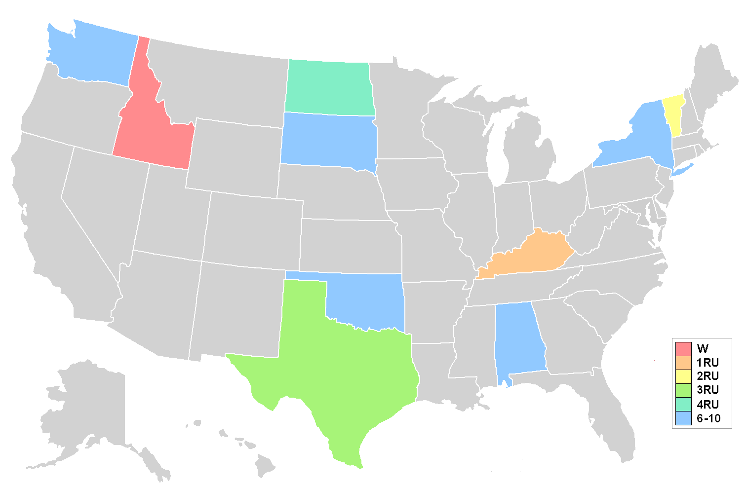 Map showing placements at the Miss Teen USA 1989 pageant. Key on graphic shows colour coding for break down of placements.